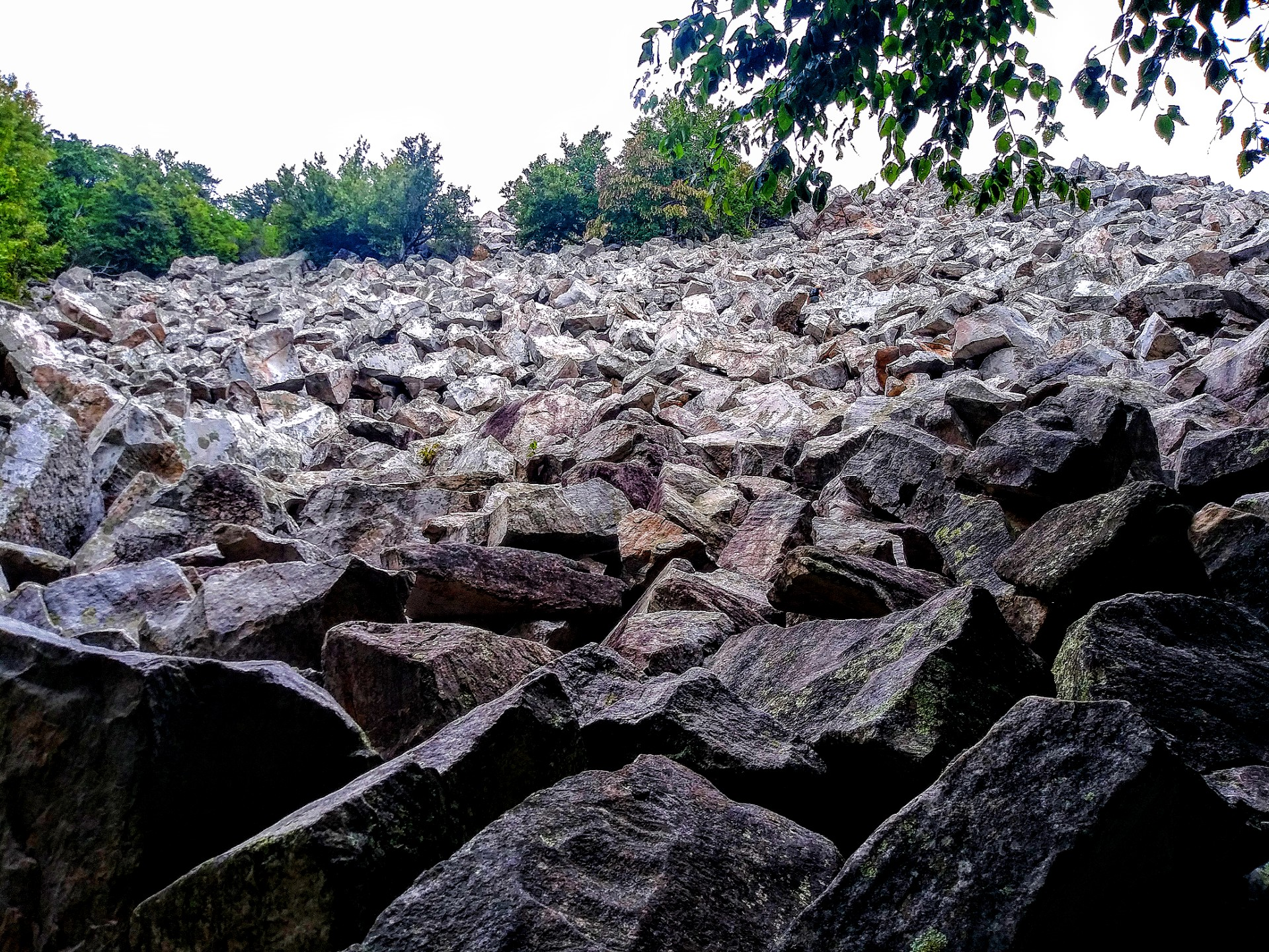 This is a view from the bottom over the Devil's Marble Yard in Natural Bridge Station, looking up towards the top of the marble yard.